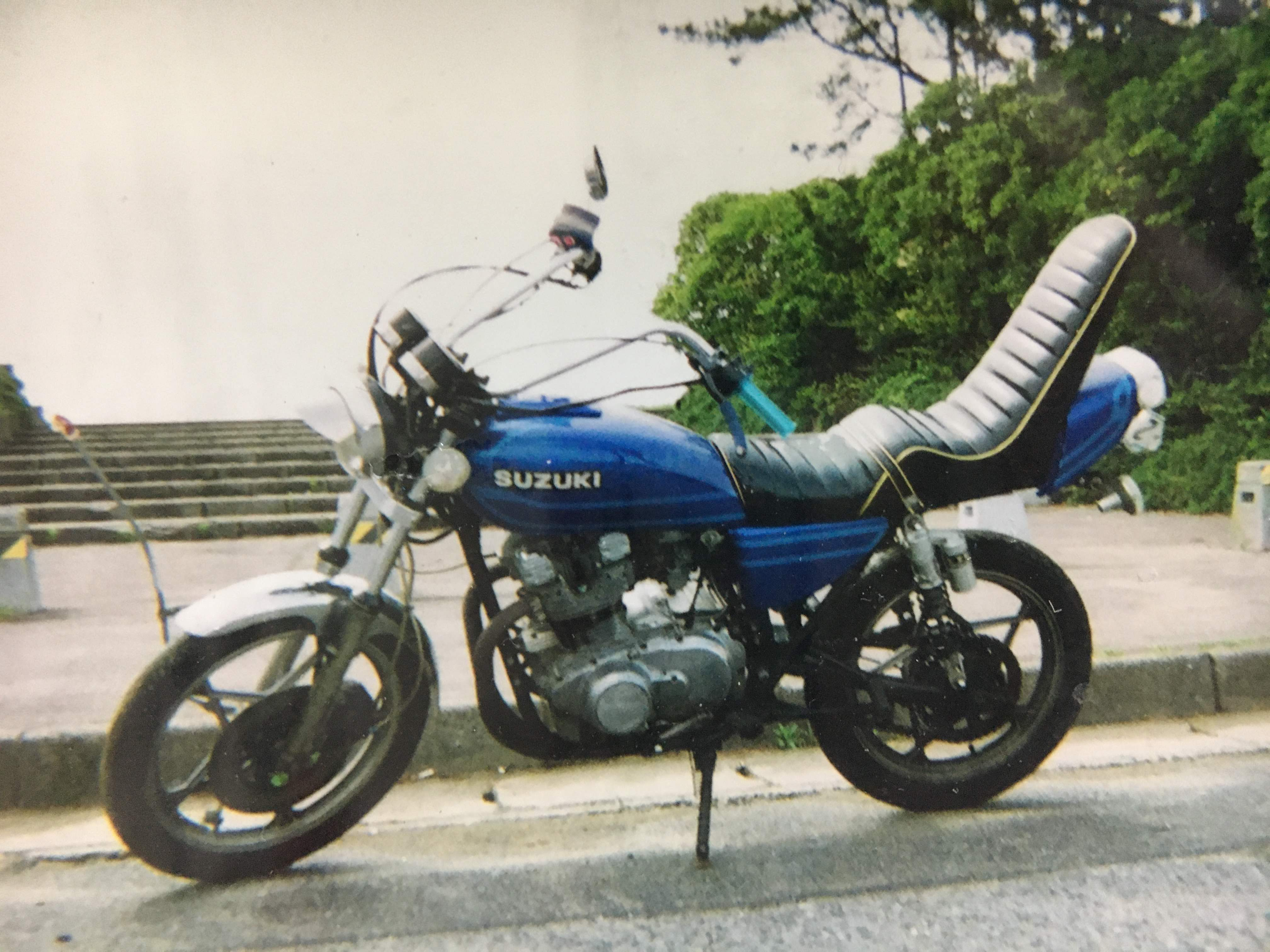 暴走族車両 GS400E